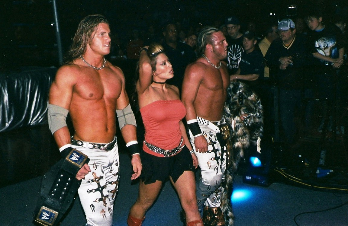 MNM at SD! in Green Bay, WI. Sometime in 2006, I don't remember when exactly. Left to right: John Morrison (real name John Hennigan), Melina (Melina Perez) and Joey Mercury (Adam Birch)